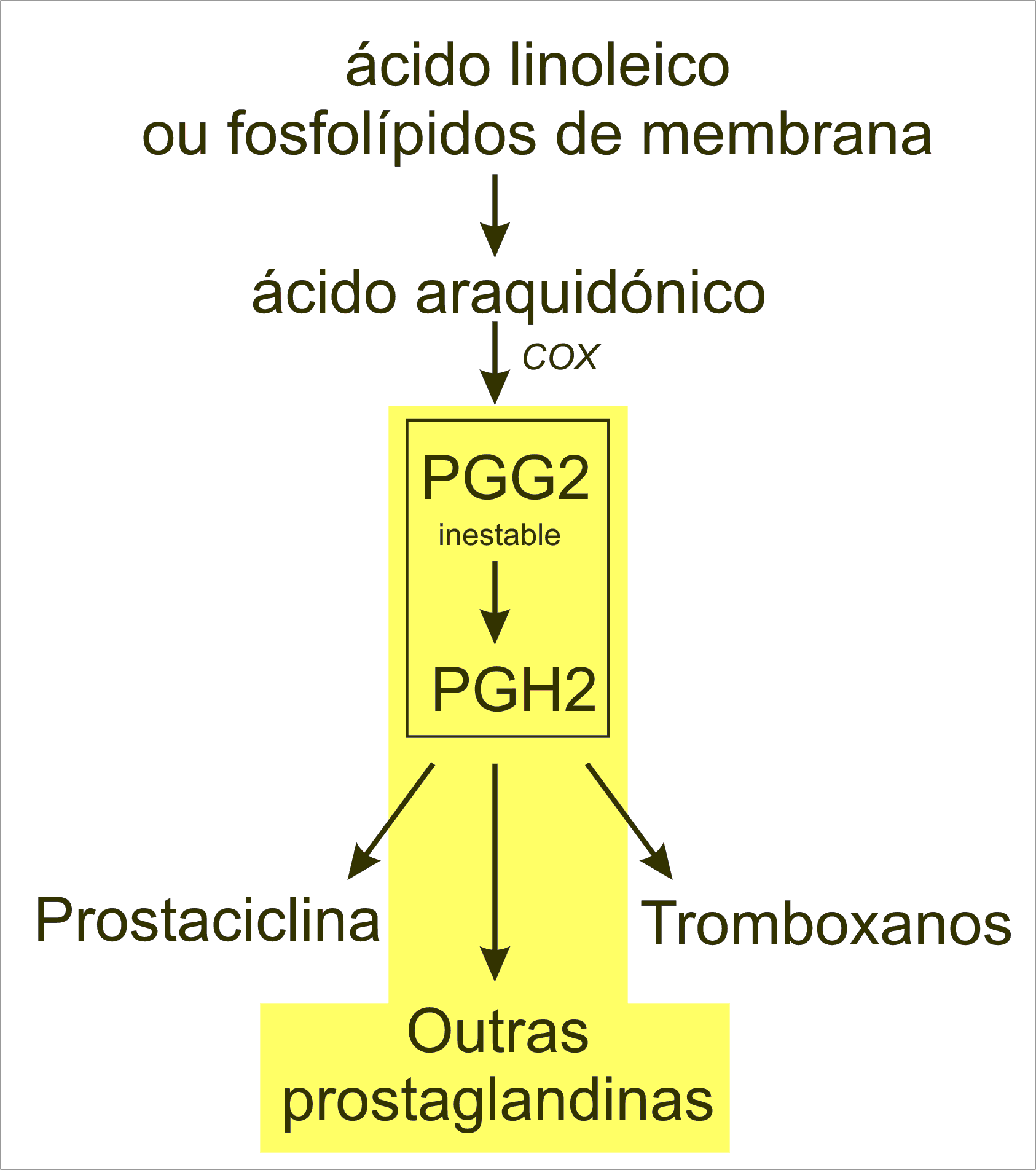 prostanoid synthesis diagram - Gallician